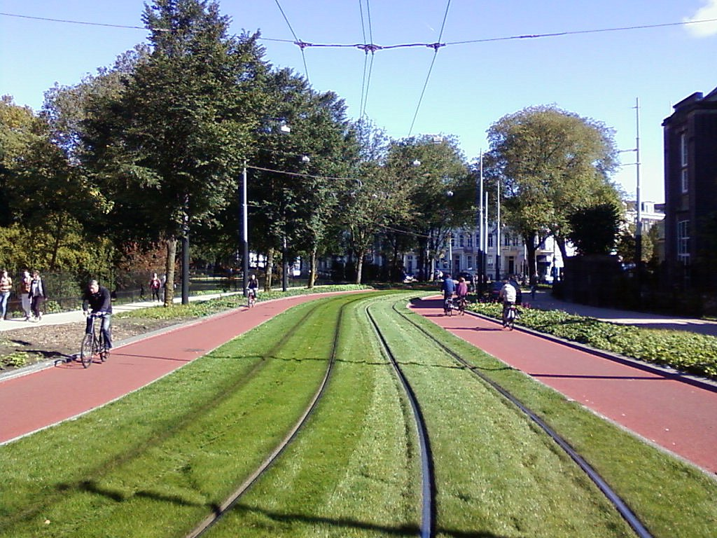 Bicycle avenue with a tramline in Amsterdam, Netherlands, EU